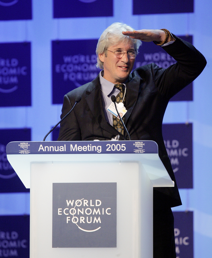 DAVOS/SWITZERLAND, 28JAN05 - Richard Gere, President, Gere Foundation, USA, watching the plenary after receiving the Crystal Award during the session 'Presentation of the Crystal Awards' at the Annual Meeting 2005 of the World Economic Forum in Davos, Switzerland, January 28, 2005. Copyright by World Economic Forum by Andy Mettler